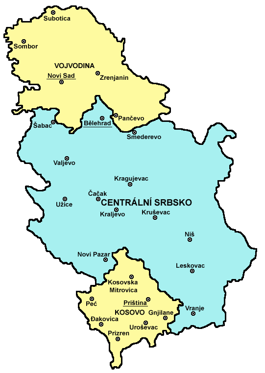 Map of Central Serbia